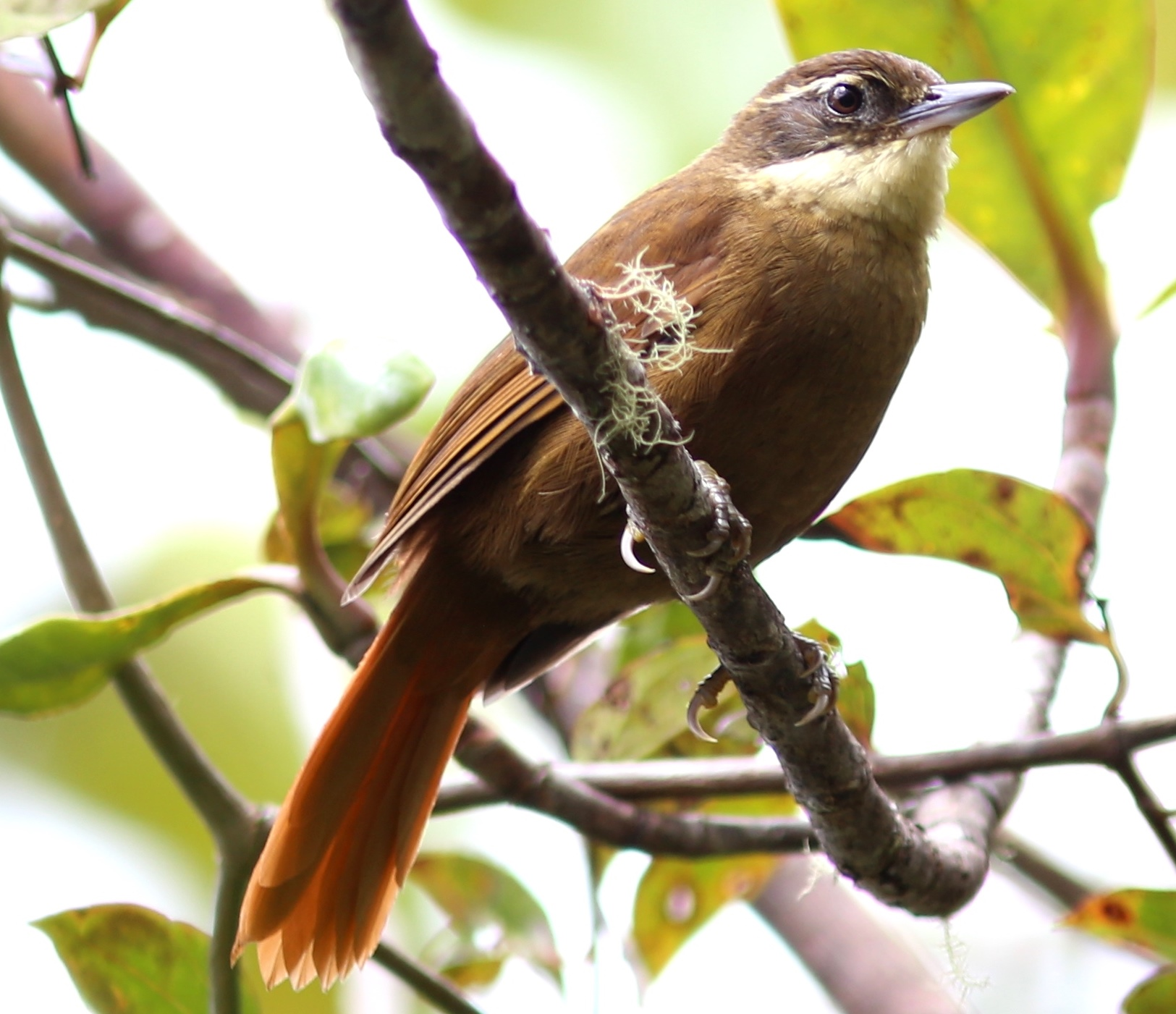 Tepui Foliage-gleaner, Mount Roraima, Venezuela